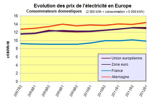 Electricity prices trends in Europe for residential consumers, 2007-2012 data source : Eurostat